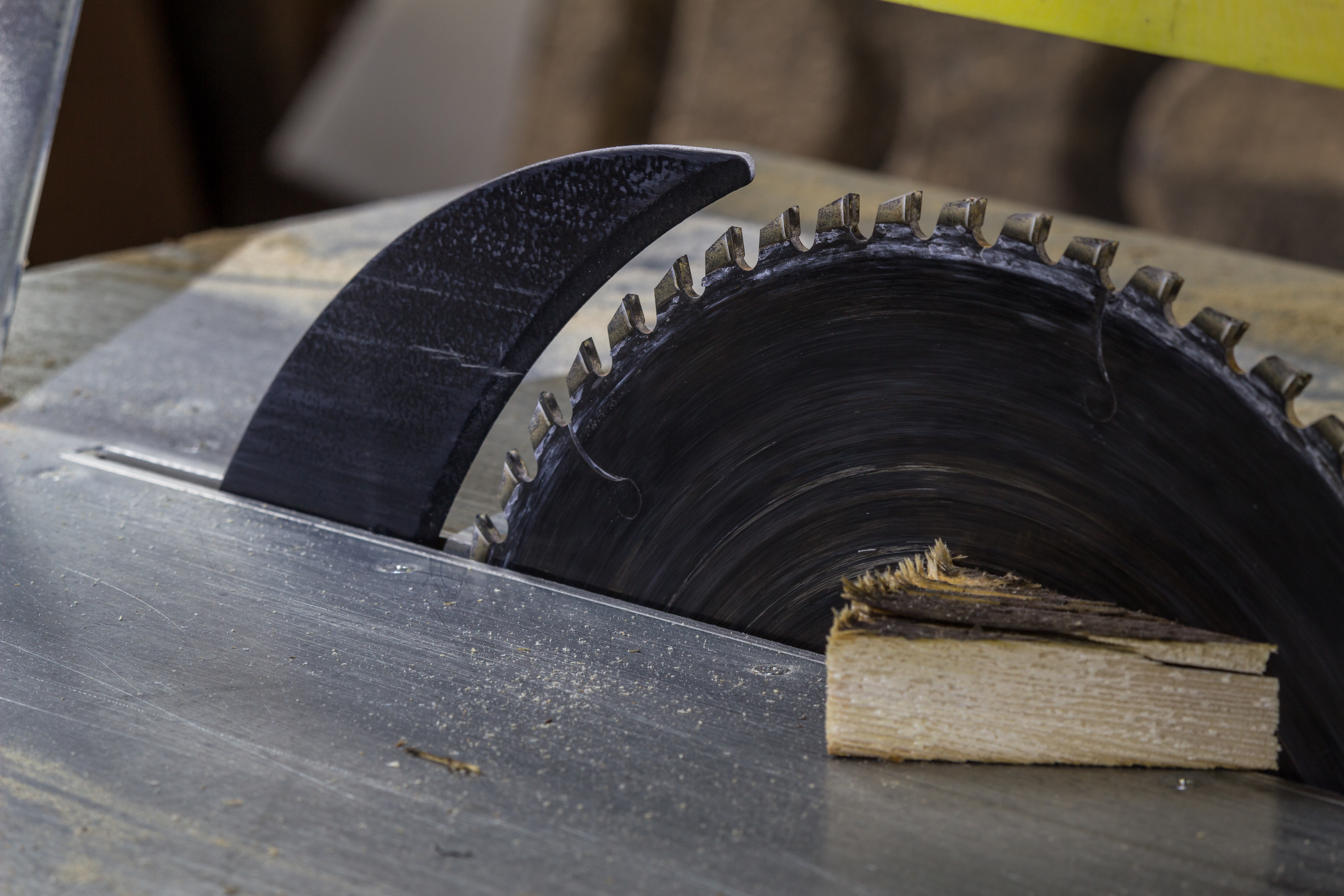 Saw, tool shed of the Quarzwerke in Sythen, Haltern, North Rhine-Westphalia, Germany